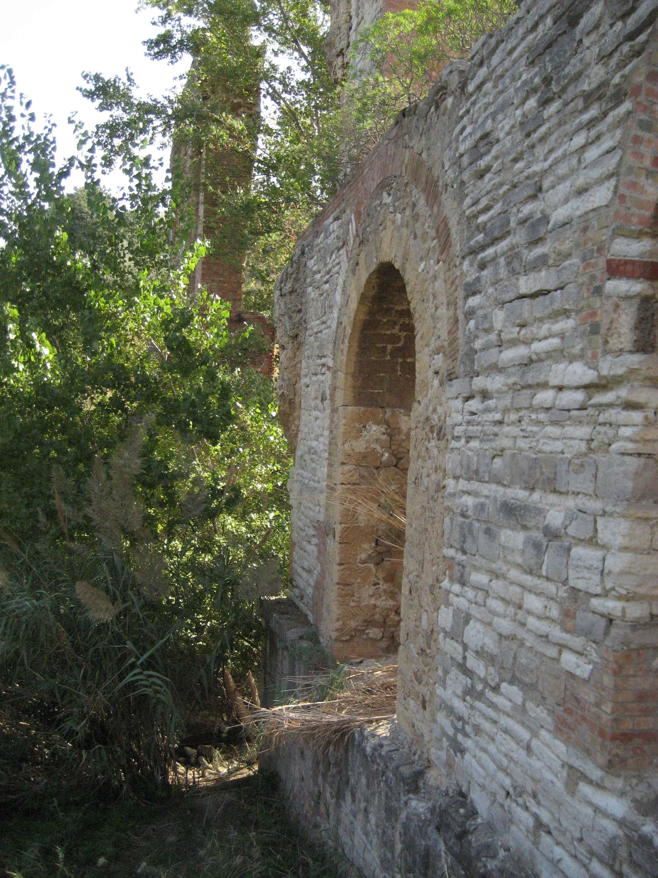 Roman Aqueduct of Termini Imerese